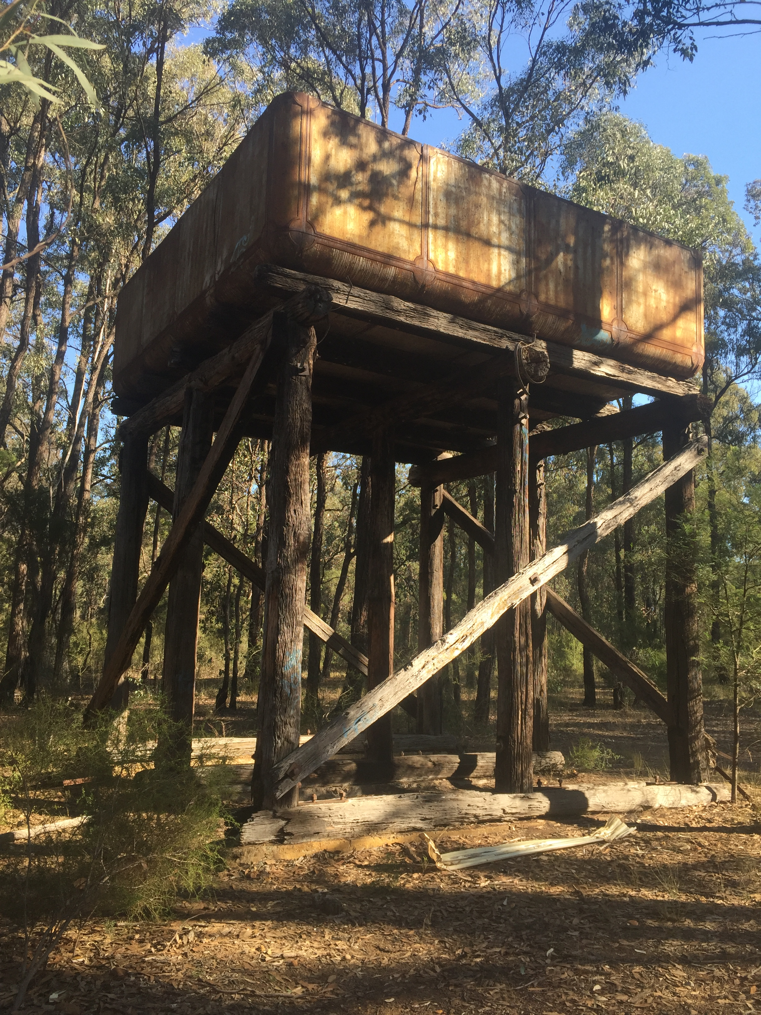 The old meatworks watertower in the Windsor Downs Nature Reserve